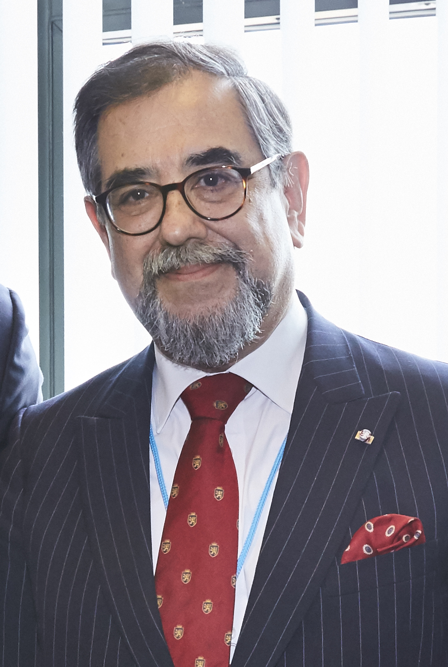 Alfredo Labbé, Director General for Foreign Policy, Ministry of Foreign Relations of Chile.